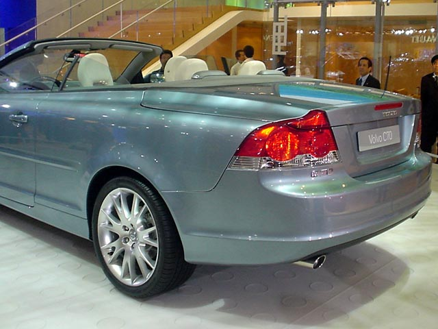 VOLVO C70 2005 in Tokyo Motor Show 2005 in openair style. photo by me.